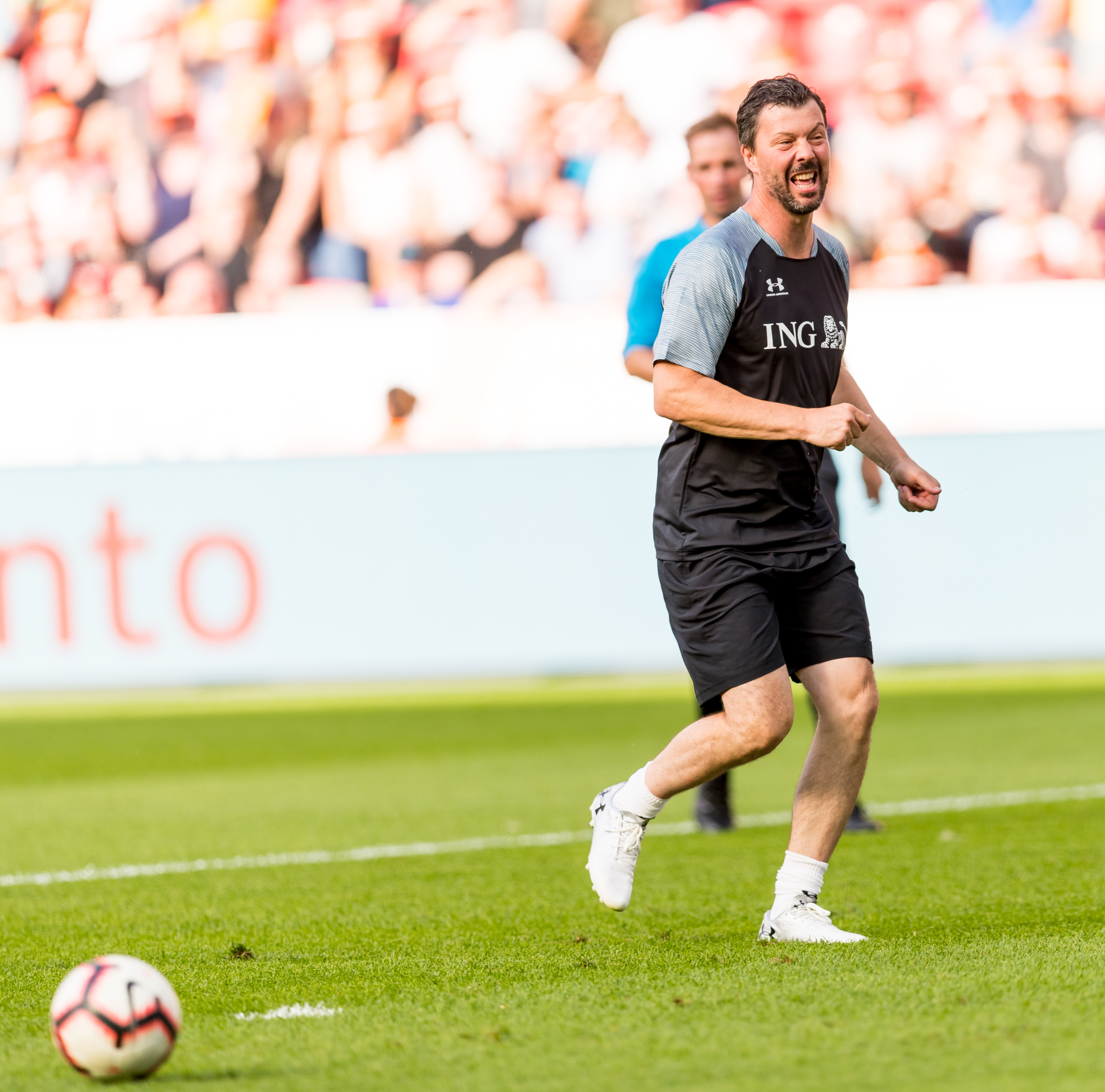 Miscellaneous during Champions for Charity at BayArena, Leverkusen, Nordrhein-Westfalen, Germany on 2019-07-21, Photo: Sven Mandel